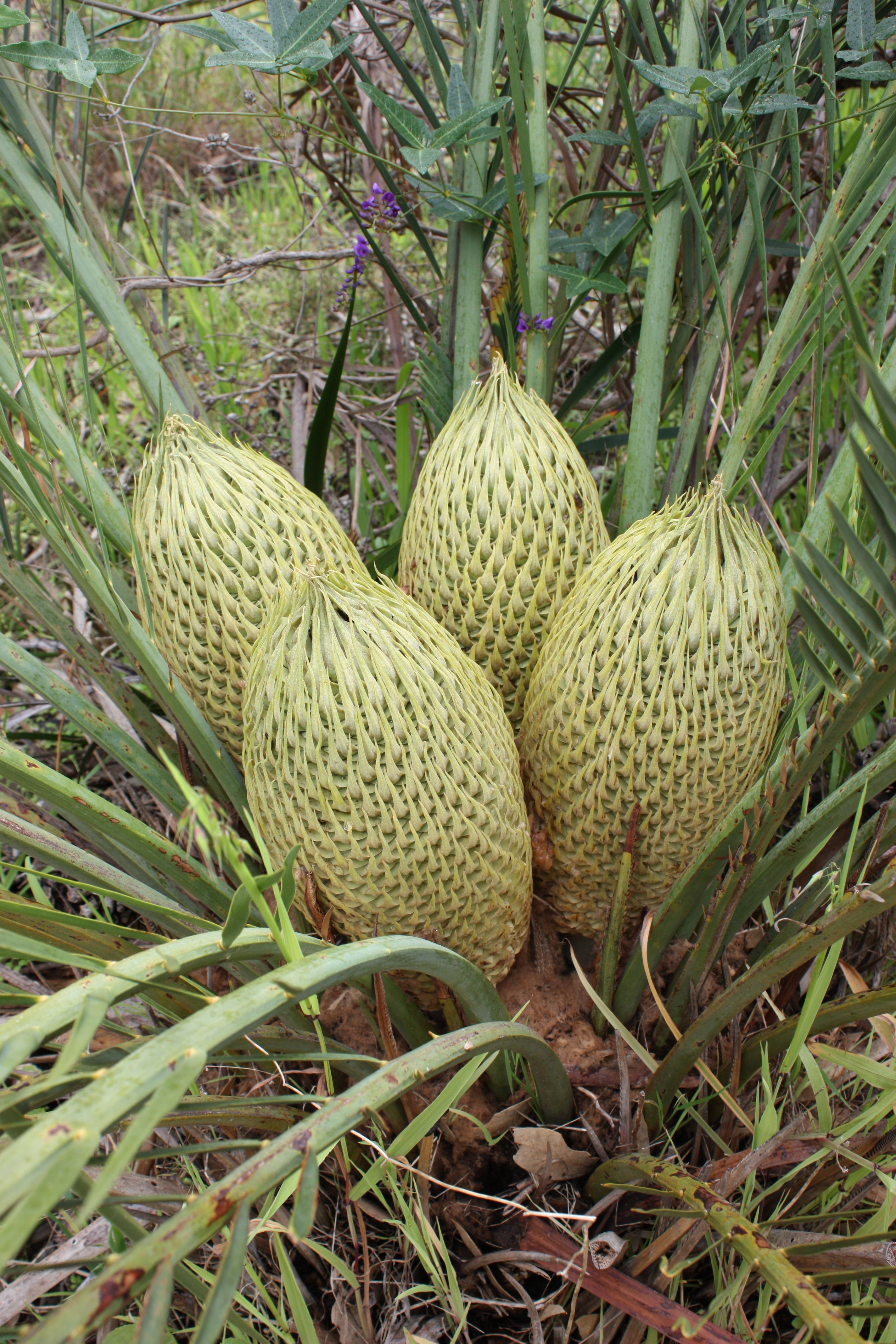 Part of a bulk upload of photographs taken by Gnangarra on Hesperian's camera. Description or deletion or refinement to follow later.